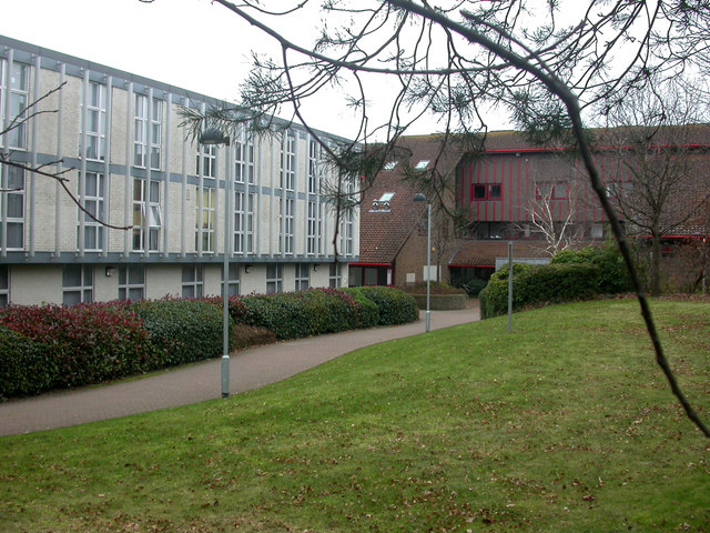 Bournemouth Arts Institute Founded on the Talbot Campus in 1982 as Bournemouth & Poole College of Art & Design, offering certificate, diploma, foundation, undergraduate & postgraduate courses. For more information